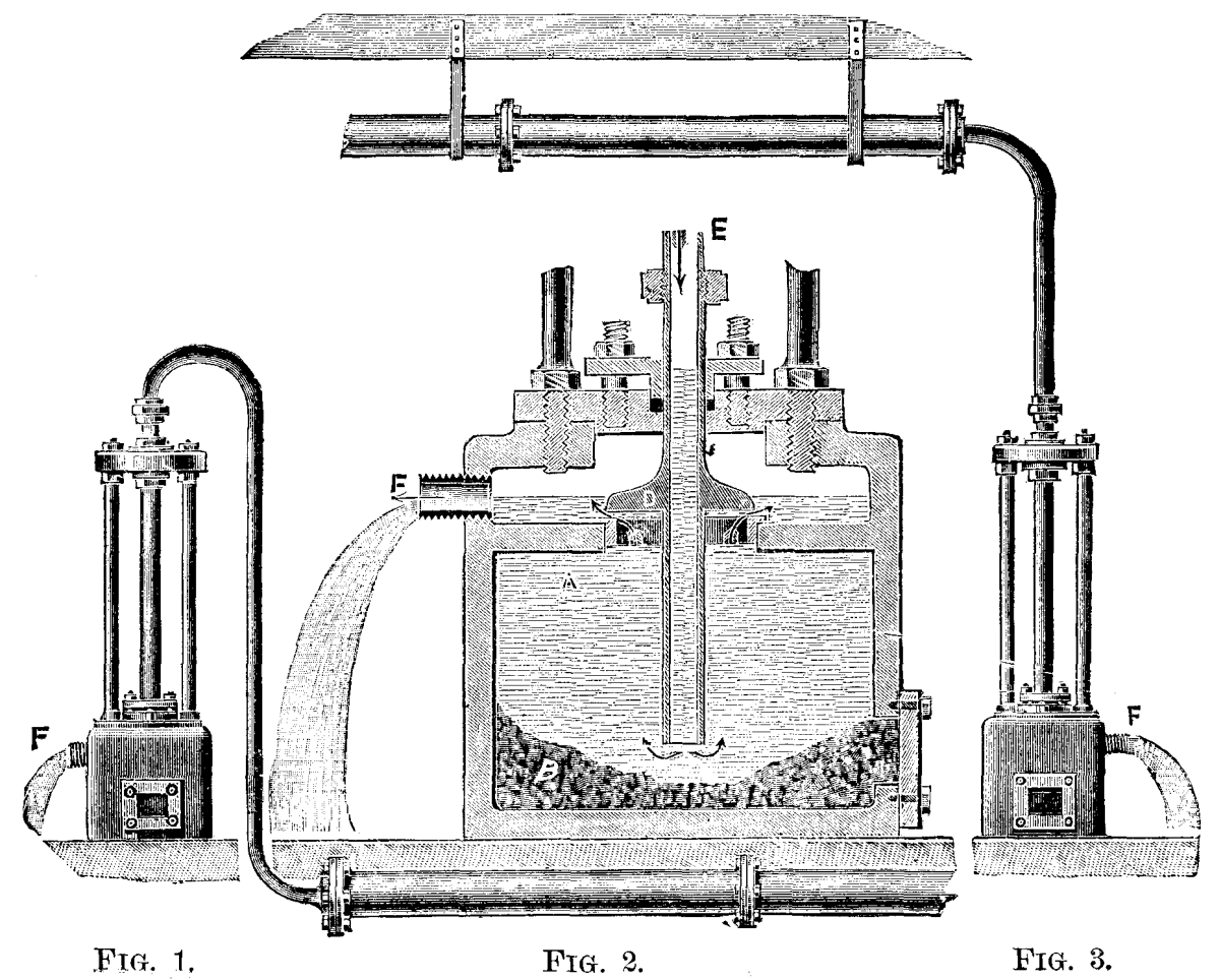 Steam trap by Mr. Hyde, and made by Mr. S. Farron, Ashton-under-Lyne. The general appearance of this arrangement is as in Fig. 1 or Fig. 3, the center view, Fig. 2, showing what is the cardinal feature of the trap, viz., that it contains a collector for silt, sand, or sediment which is not, as in most other traps, carried out through the valve with the efflux of water. The escape valve also is made very large, so that while the trap may be made short, or, in other words, the expansion pipe may not be long, a tolerably large area of outlet is obtained with the short lift due to the small movement of the expansion pipe. Scientific American 1885